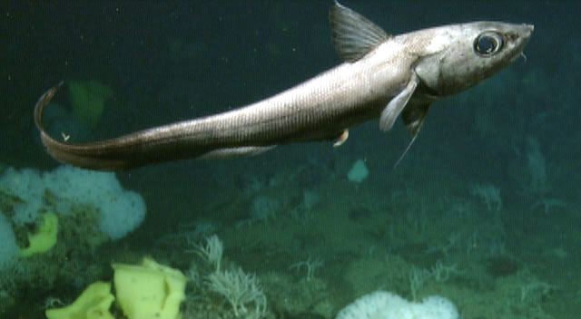 Pacific grenadier (Coryphaenoides acrolepis) on the Davidson Seamount at 1311 meters.